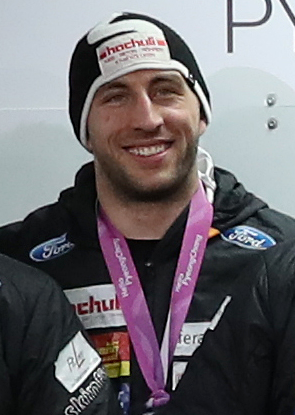 Thomas Amrhein in Pyeongchang, IBSF World Cup 2016/17 finale